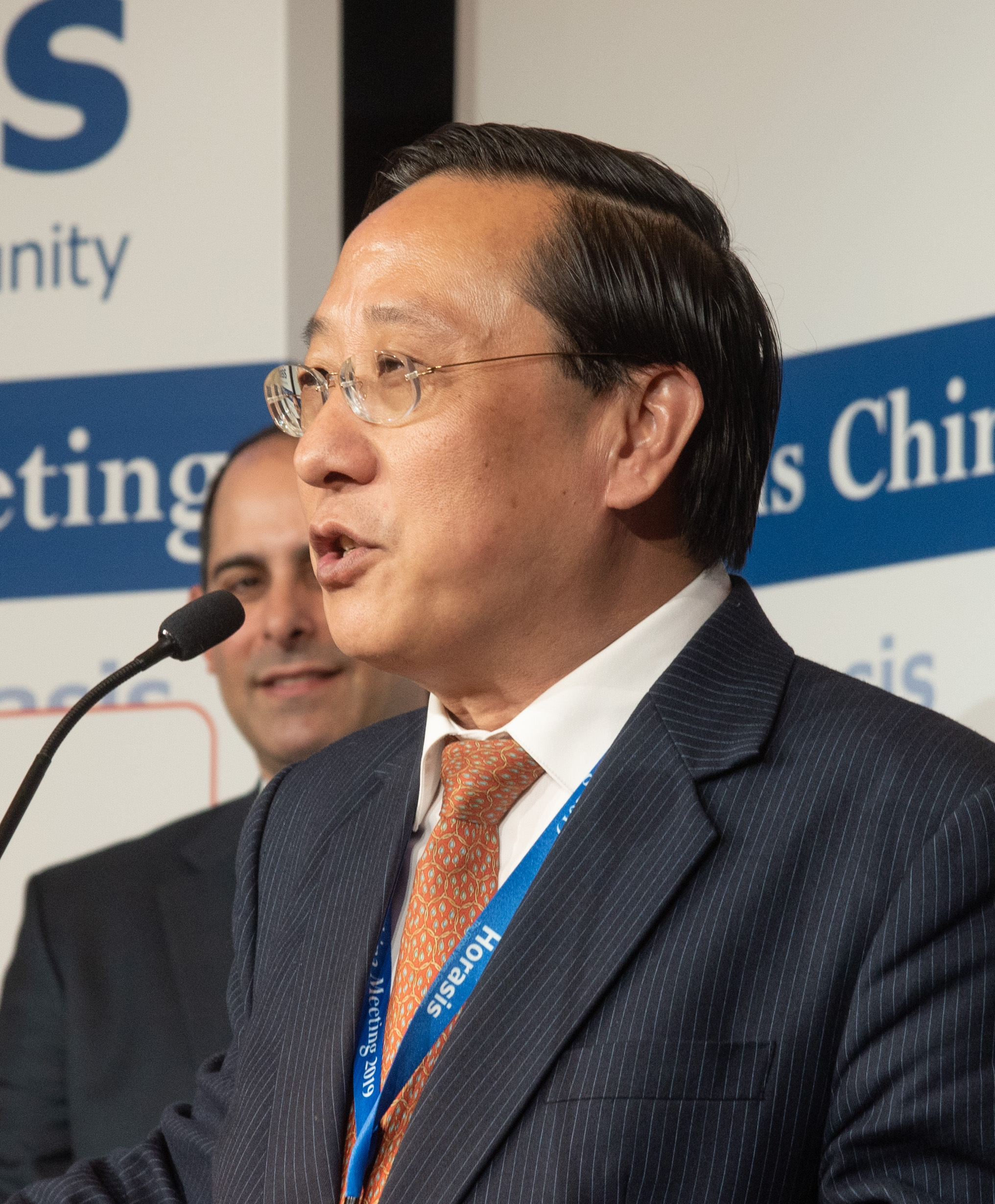 Victor Gao, Vice President, Center for China & Globalization, China, speaks at the Horasis Global China Business Meeting 2019